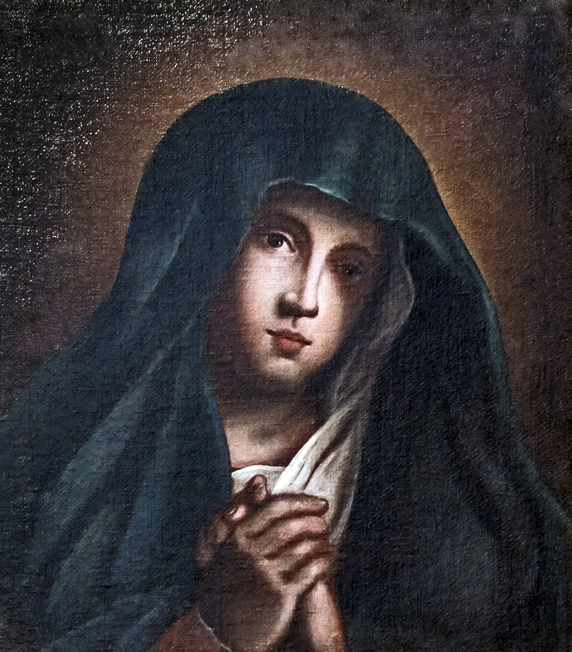 Santa Maria Gloriosa dei Frari, Sacristy - Madonna in prayer by Giovanni Battista Salvi. Oil on canvas.